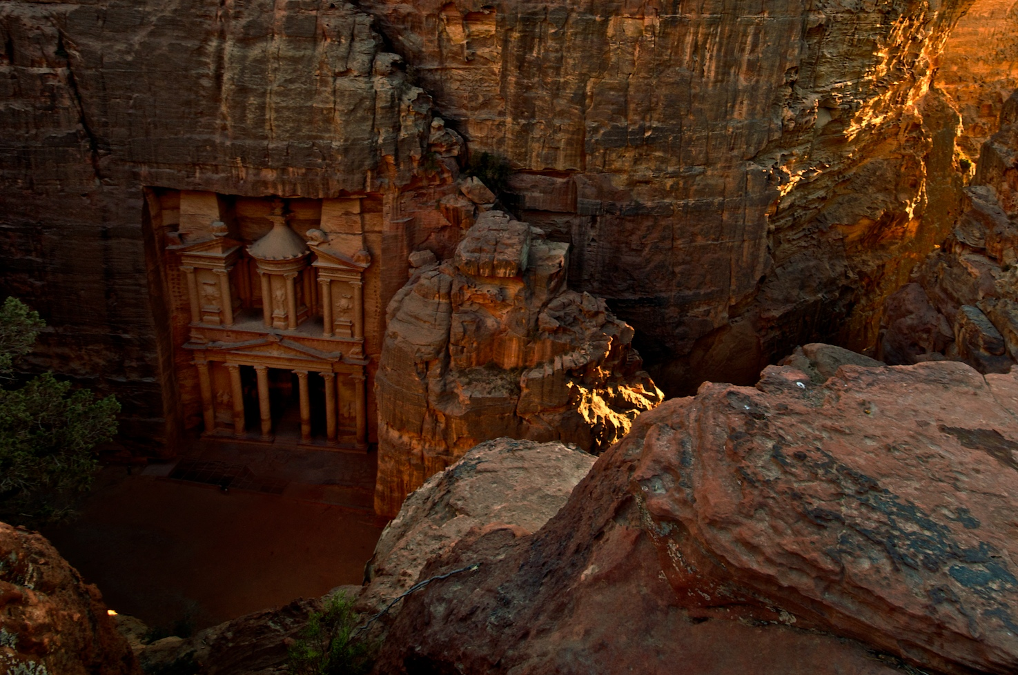 The Treasury (Al Khazneh) at sunset, viewed from the top of the Siq.